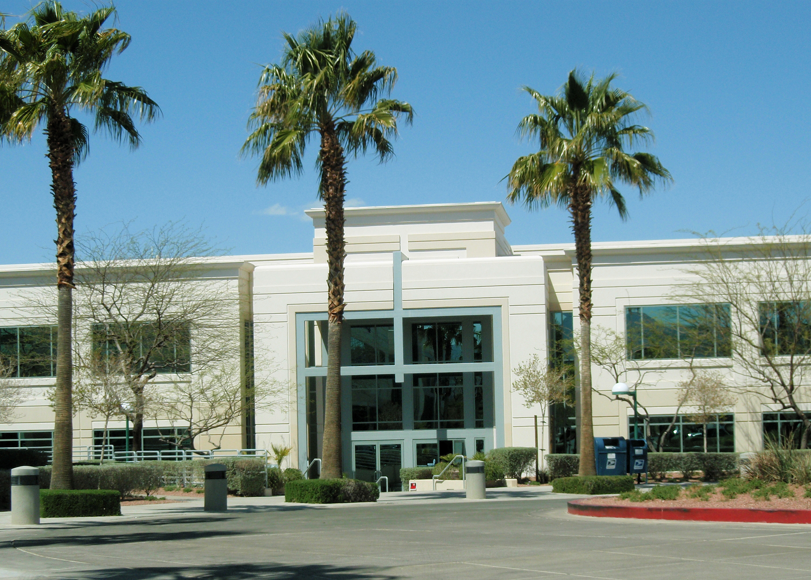 The headquarters of in Henderson. Photographed by user Coolcaesar on March 29, 2008.